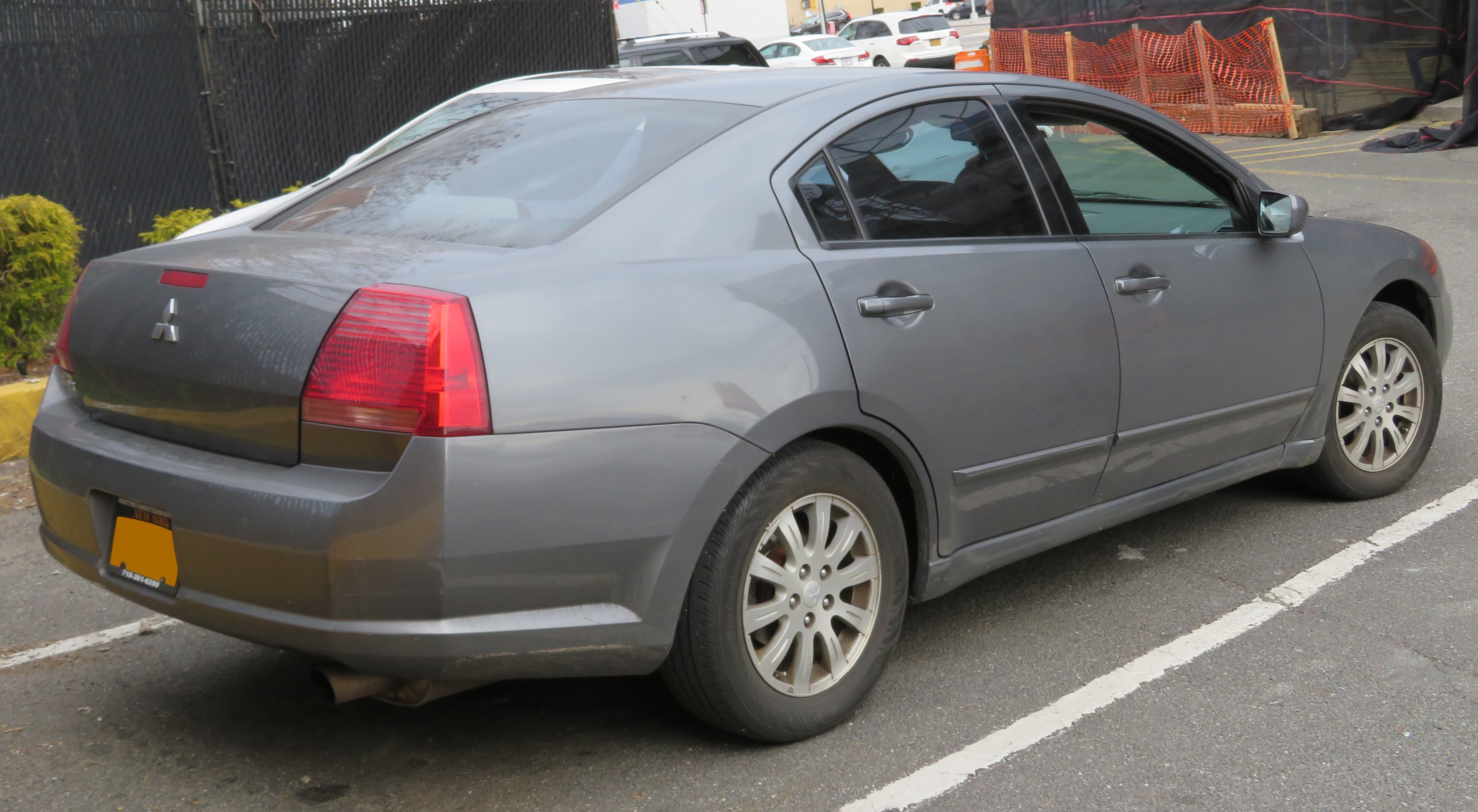 In Queens, New York